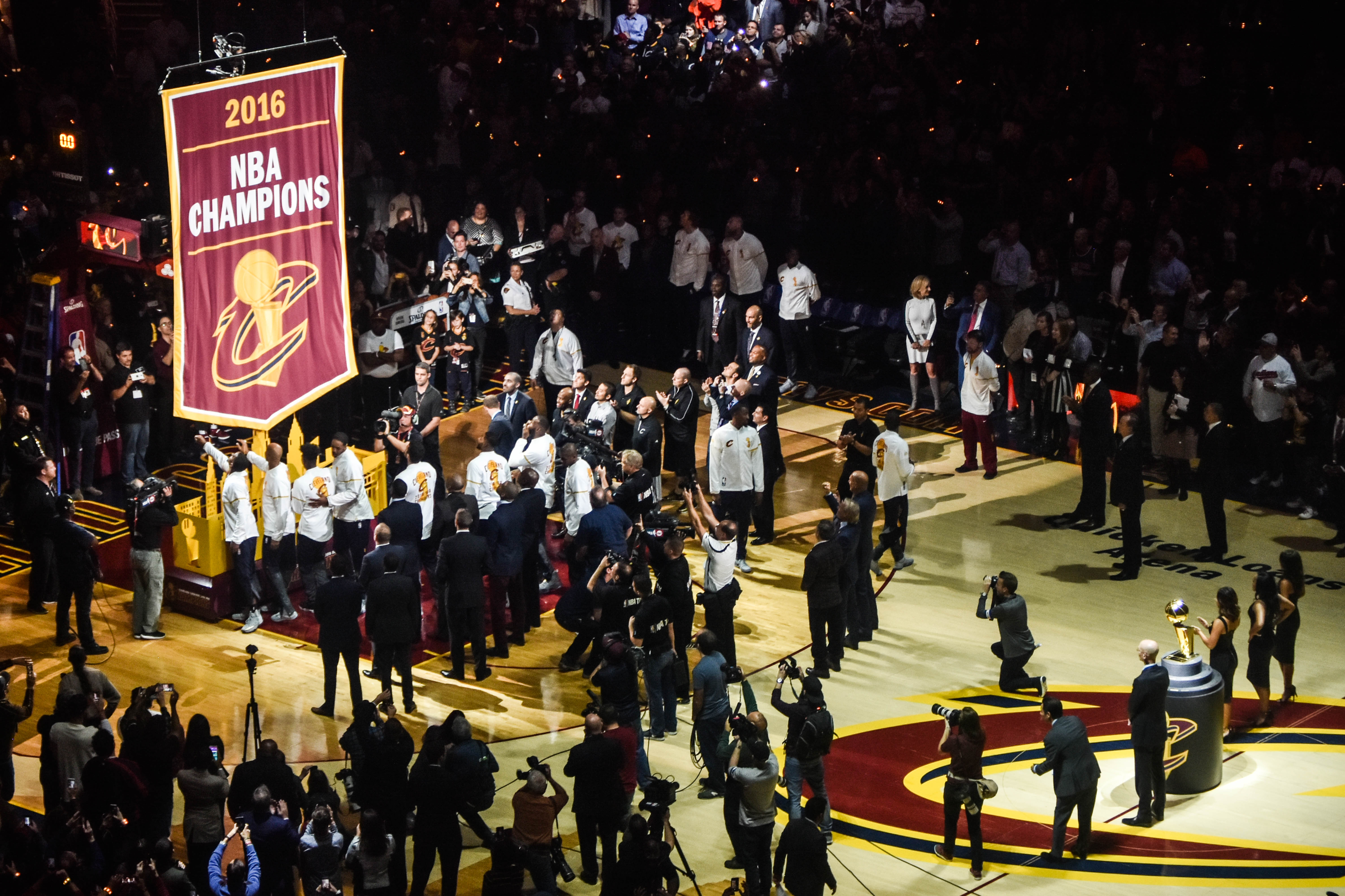 The Cleveland Cavaliers raise their 2016 championship banner at Quicken Loans Arena during a ceremony before the first game of the 2016–17 NBA season